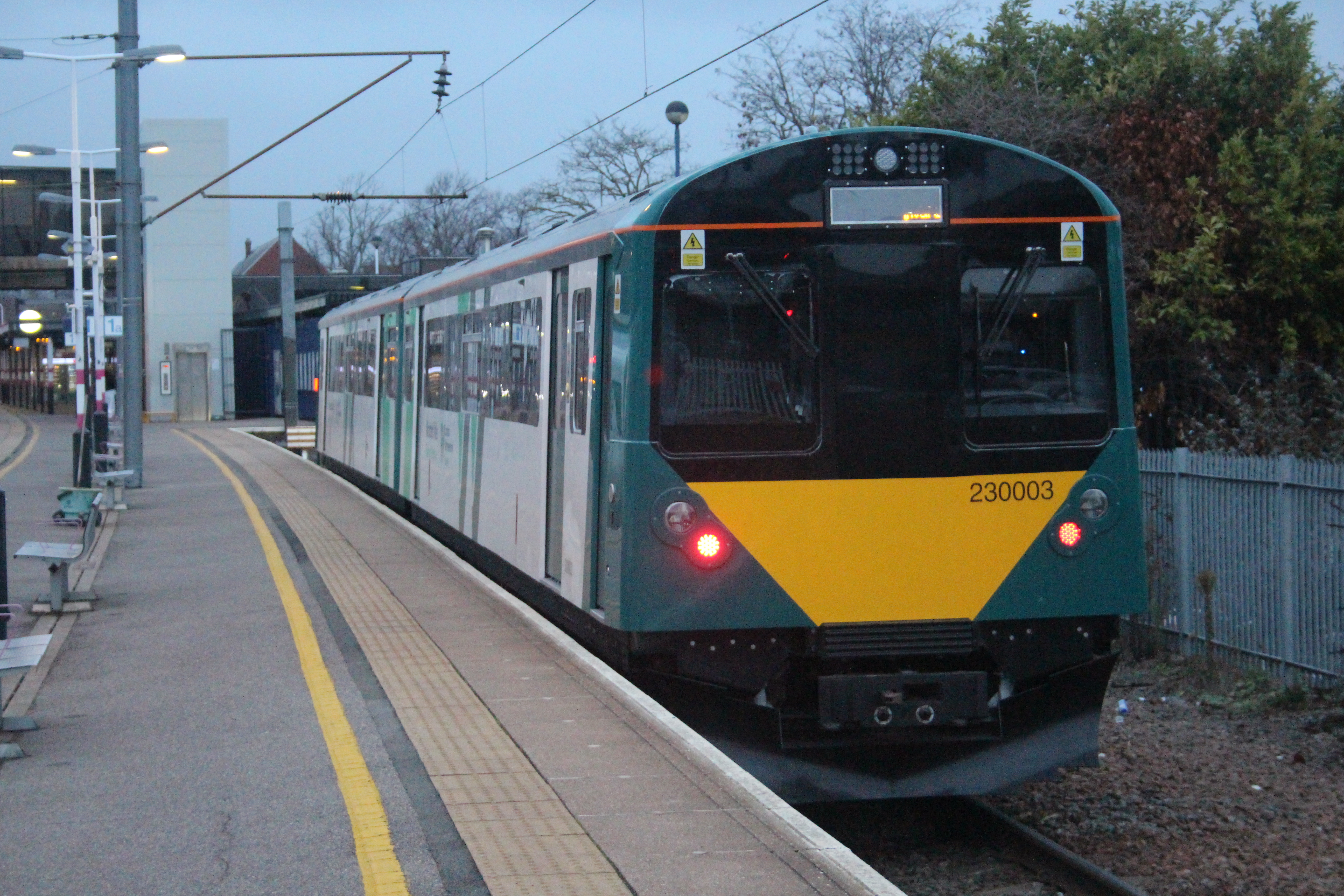 A Class 230 DEMU at Bedford Midland station.